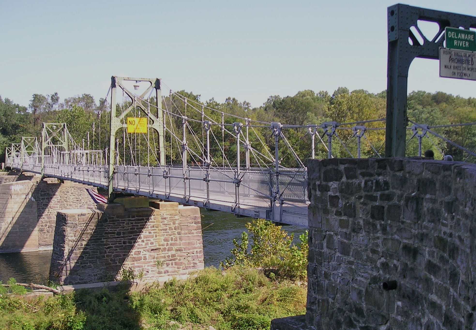 Pennsylvania portal to Lumberville-Raven Rock pedestrian bridge